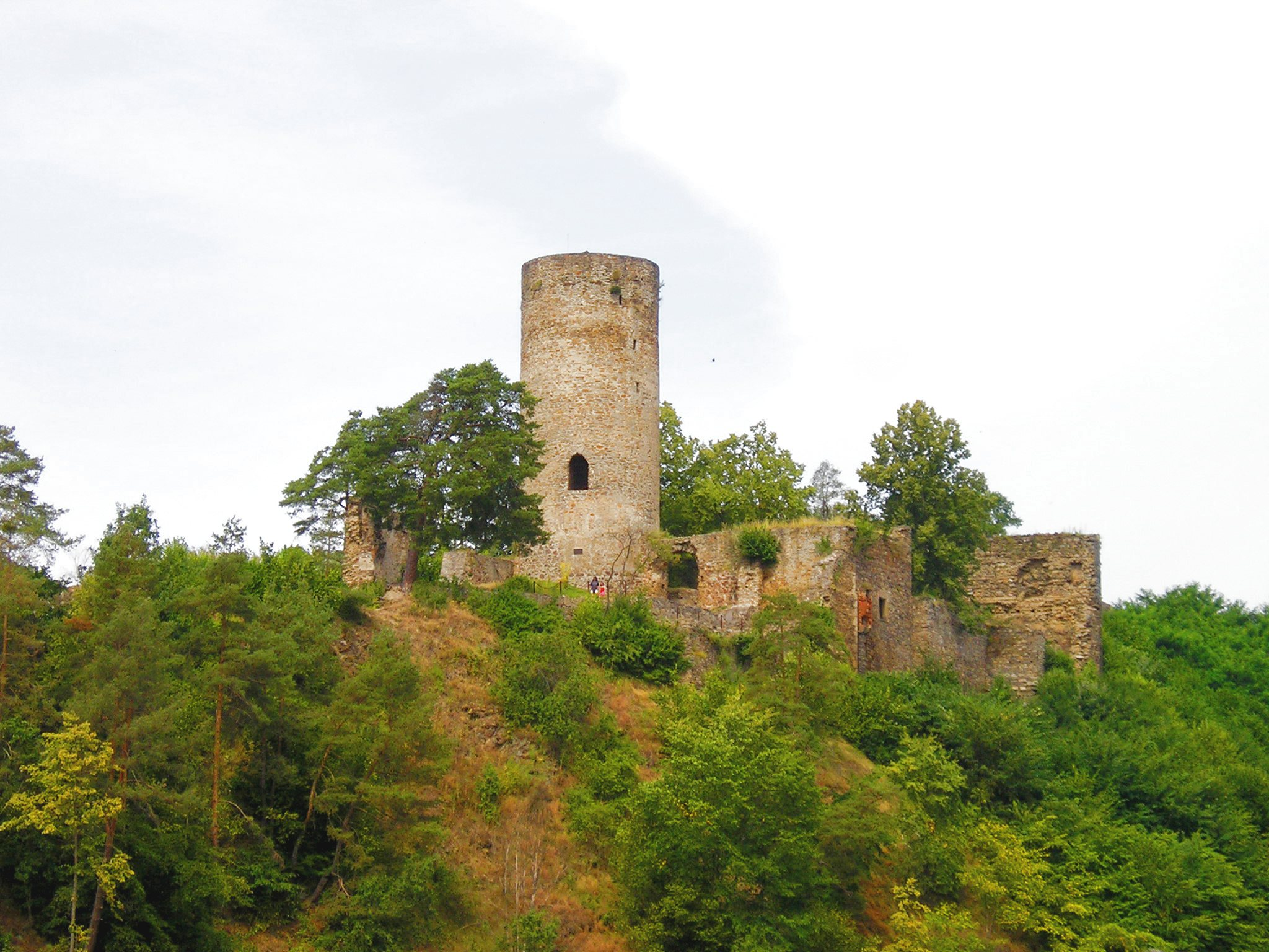 Ruin of Dobronice Castle (Czech Republic) Photo taken by Marcus33.